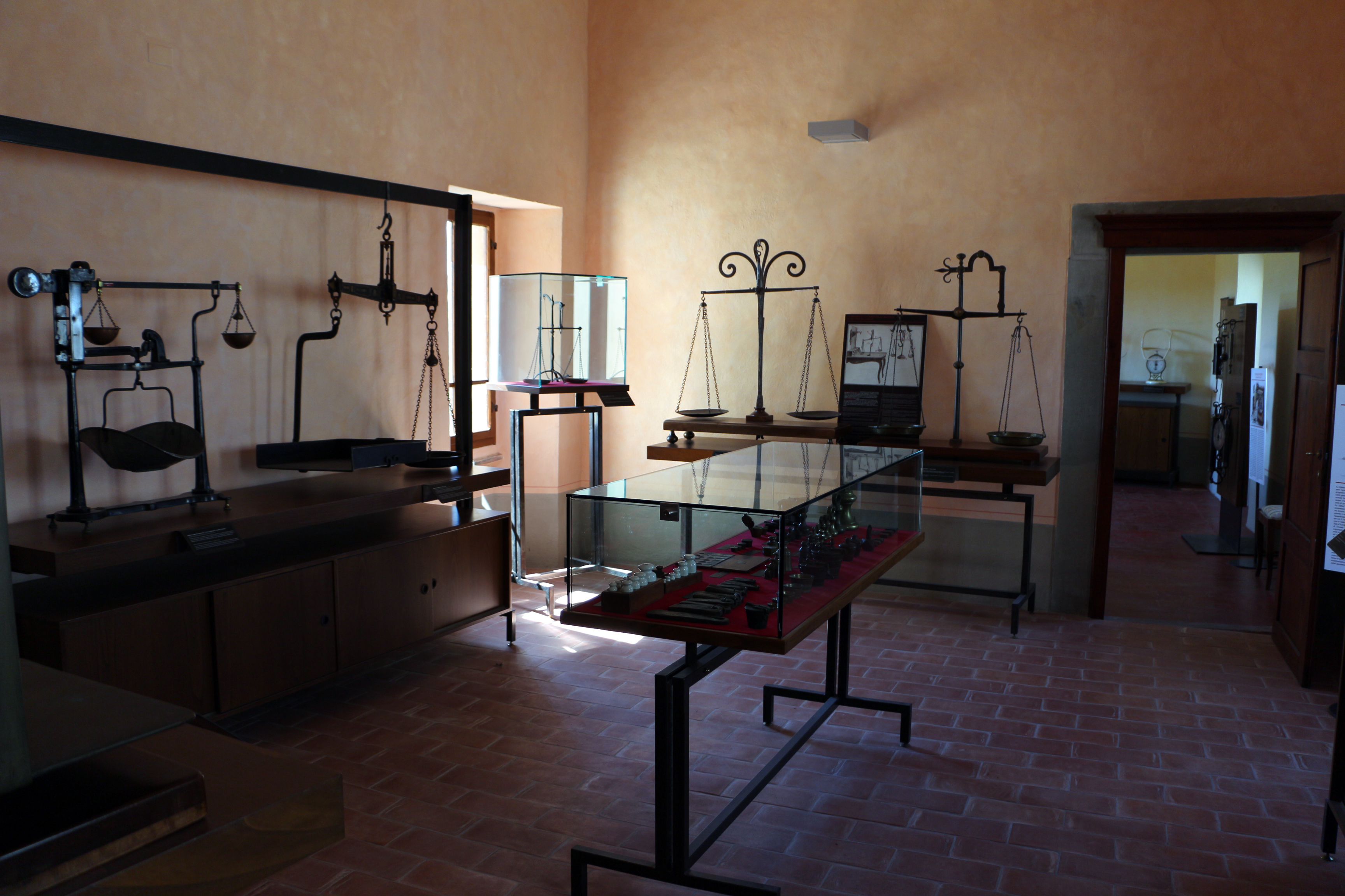 Museo delle Bilance (Monterchi)